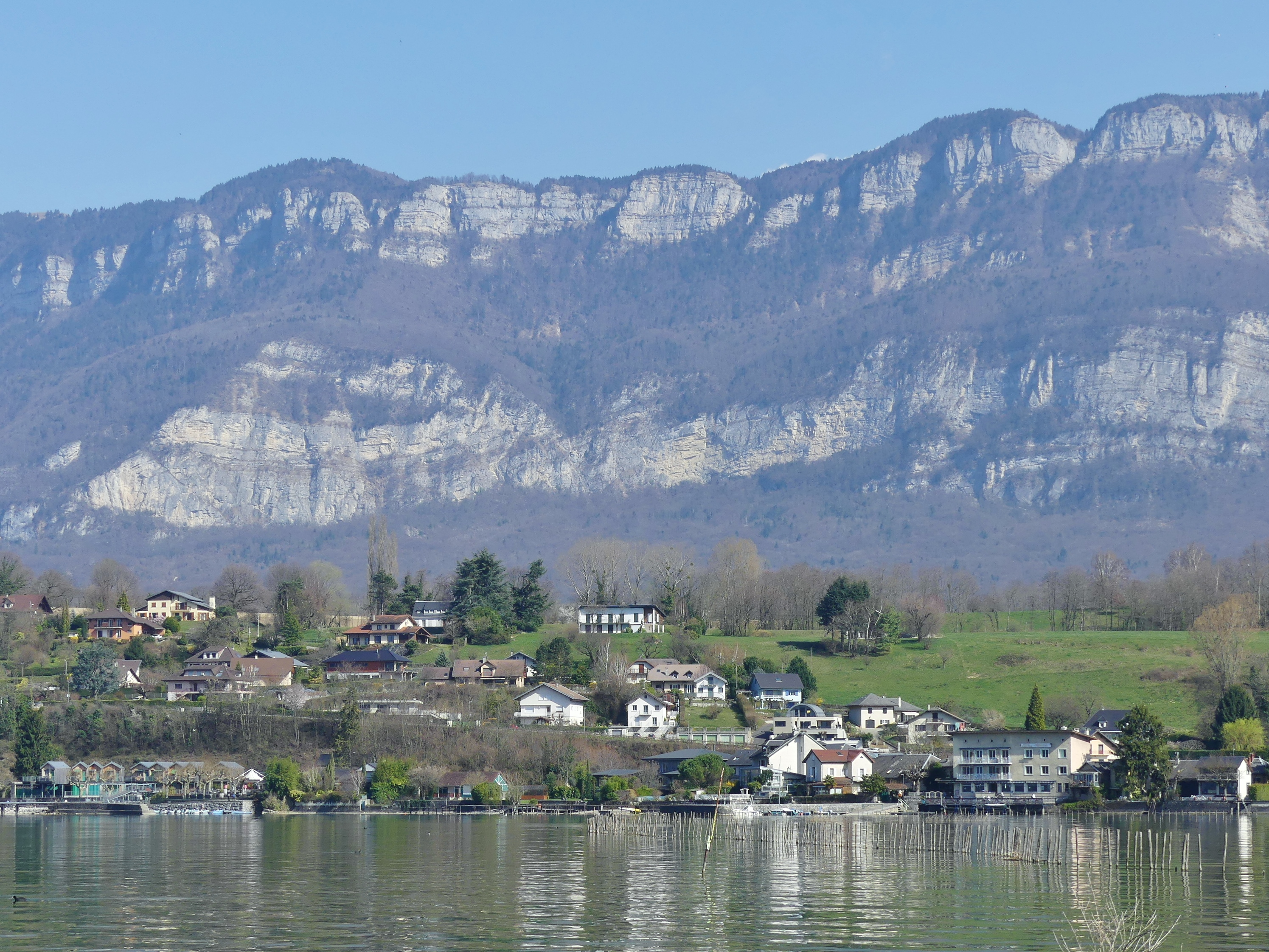 Sight, from Les Mottets beach, of Terre-Nue hamlet, in Viviers-du-Lac near Aix-les-Bains in Savoie.